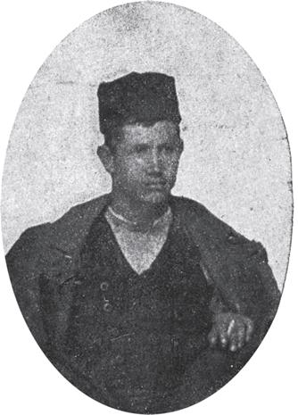 Portrait of IMARO member and curier Spiro Kelemanov